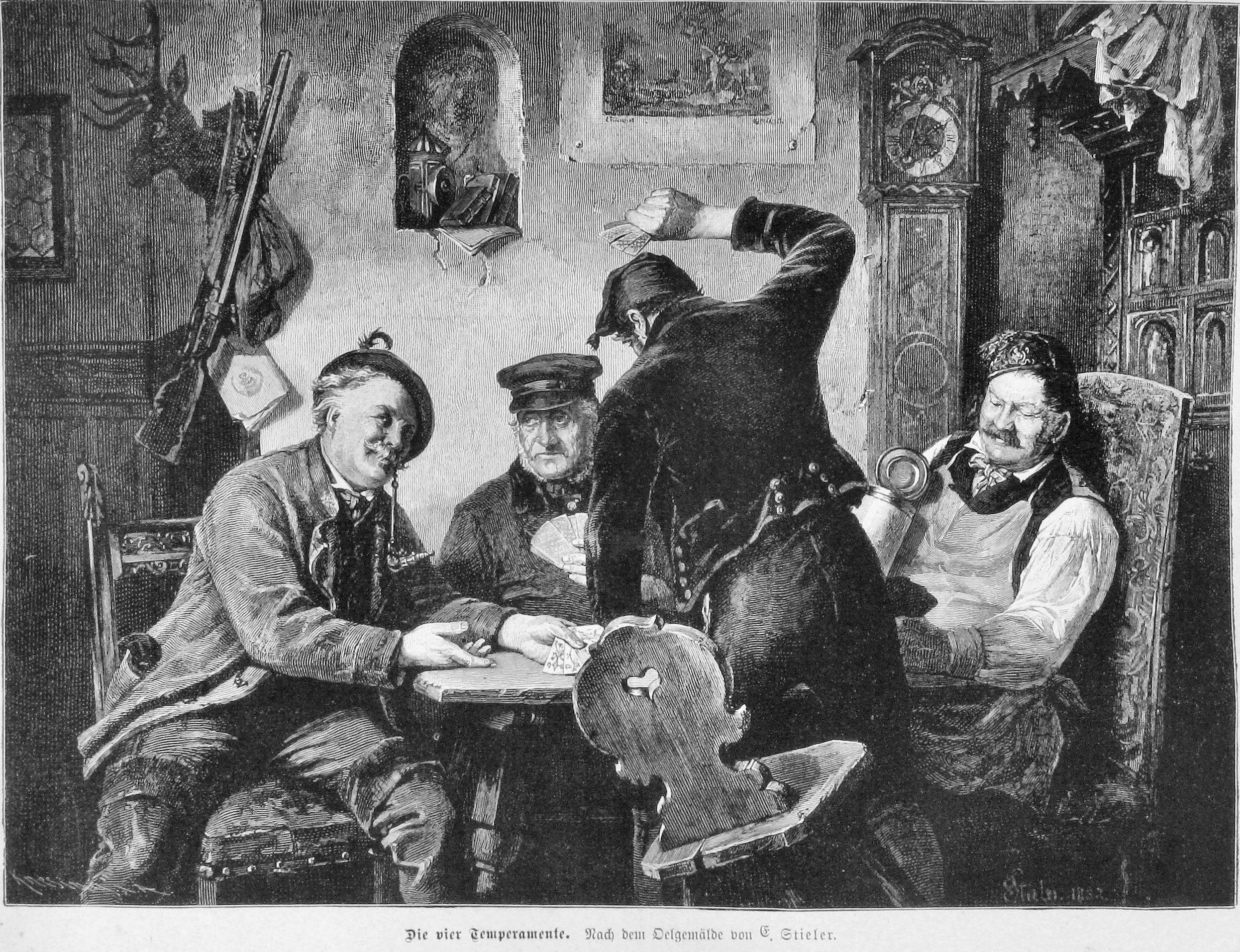 caption: "Die vier Temperamente. Nach dem Oelgemälde von E. Stieler."